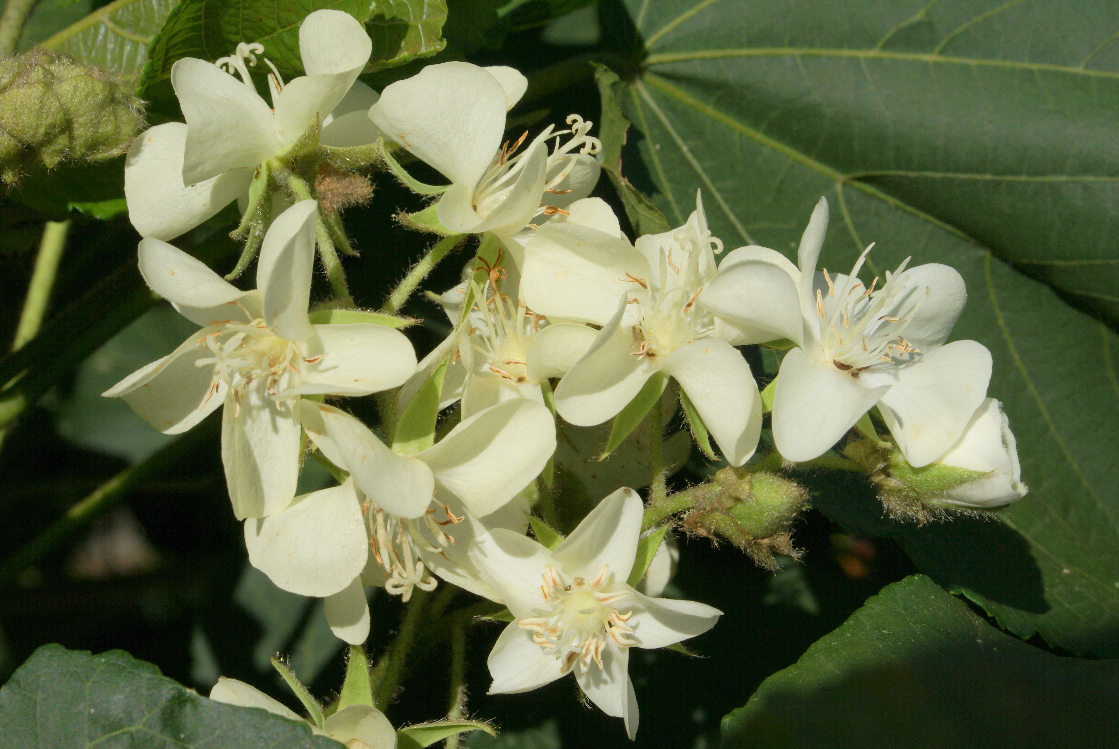 Dombeya acutangula flowers